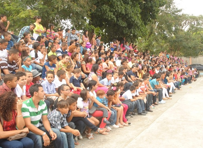 Dominicans of the Cibao region (Cibaenos).